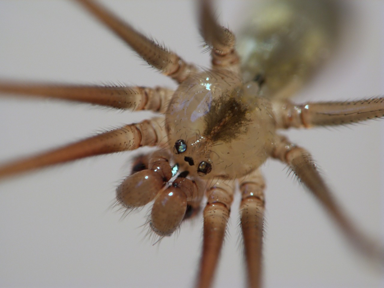 A cellar spider.